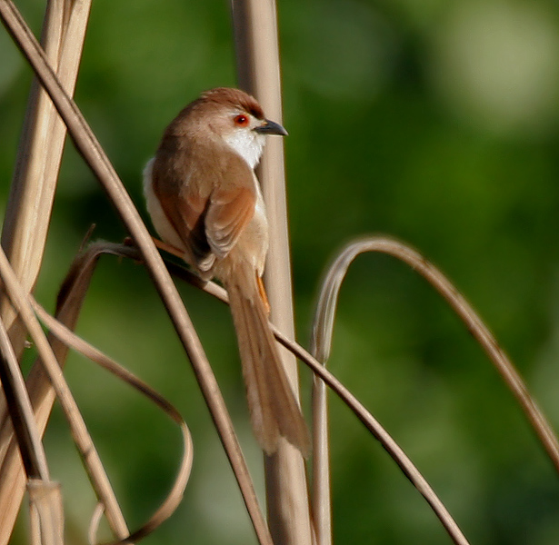 Yellow-eyed Babbler Chrysomma sinense at Hodal, Faridabad, Haryana, India.